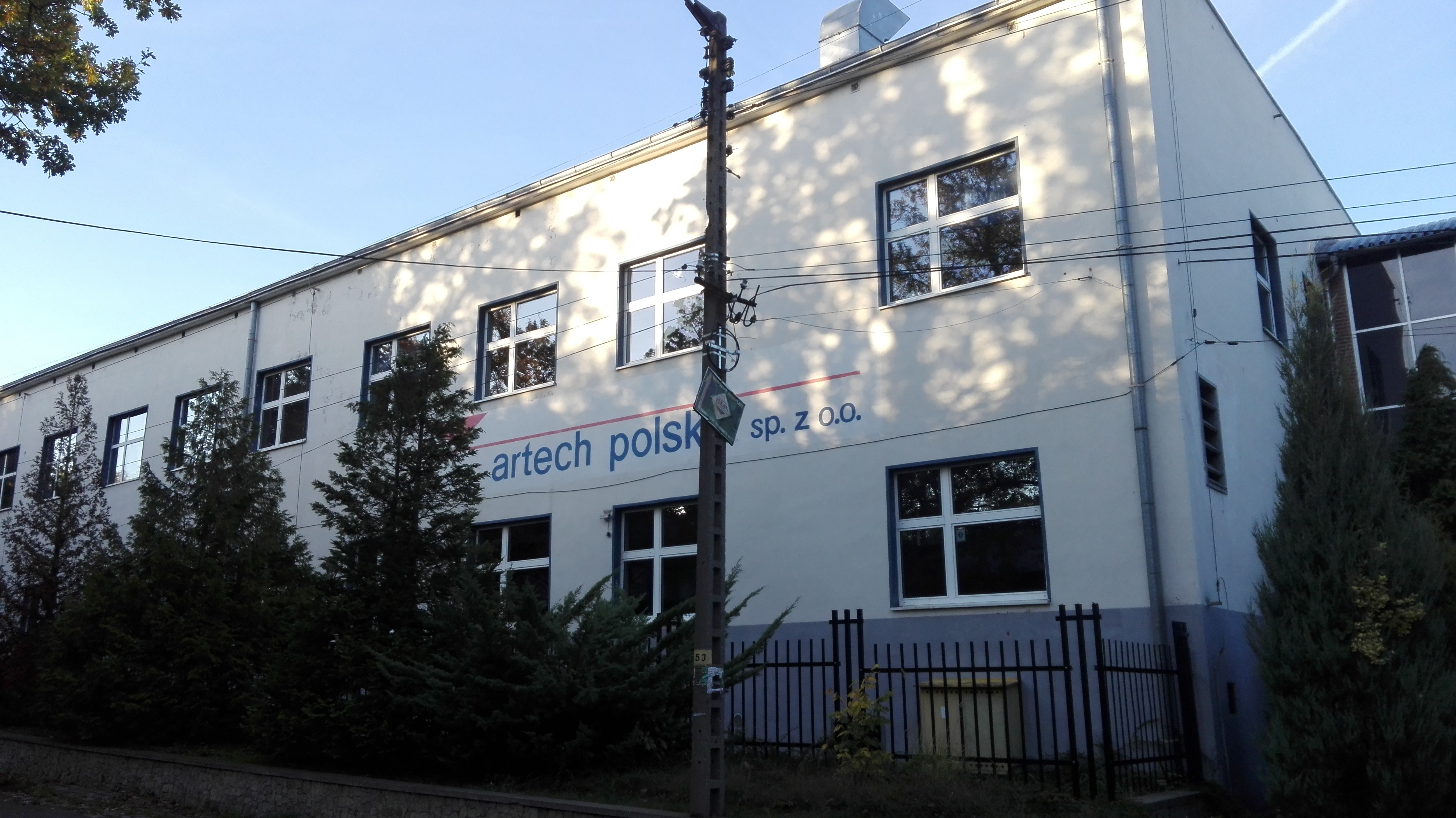 6 Legionów Street in Prudnik